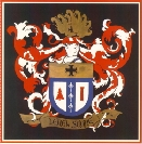 Wapen van het Sint-Jozefcollege van Turnhout